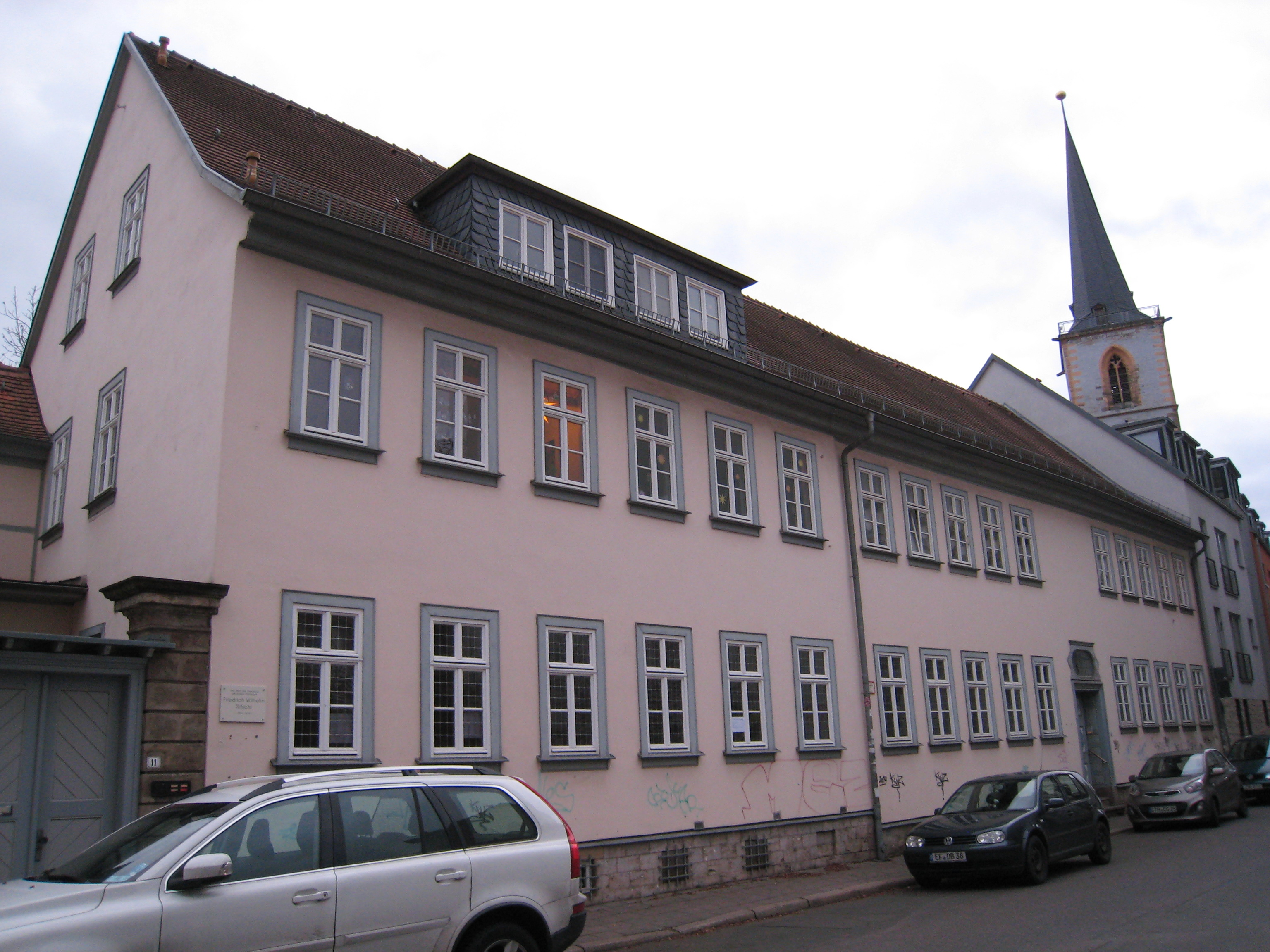 House of the family of Friedrich Ritschl in Erfurt, Augustinerstrasse 11